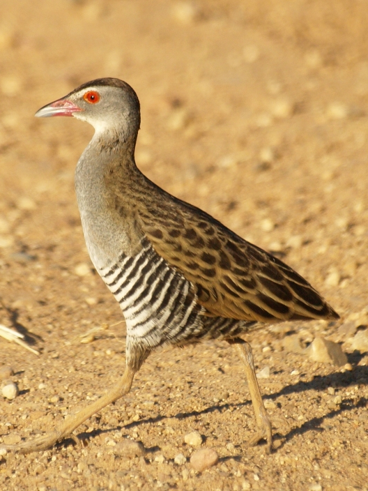 African crake on the Zaagkuildrift Road, beside the Pienaars River, two hours north of Johannesburg, South Africa (cropped and mirrored)